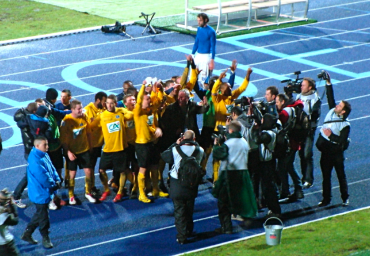 Wasquehal vs Auxerre